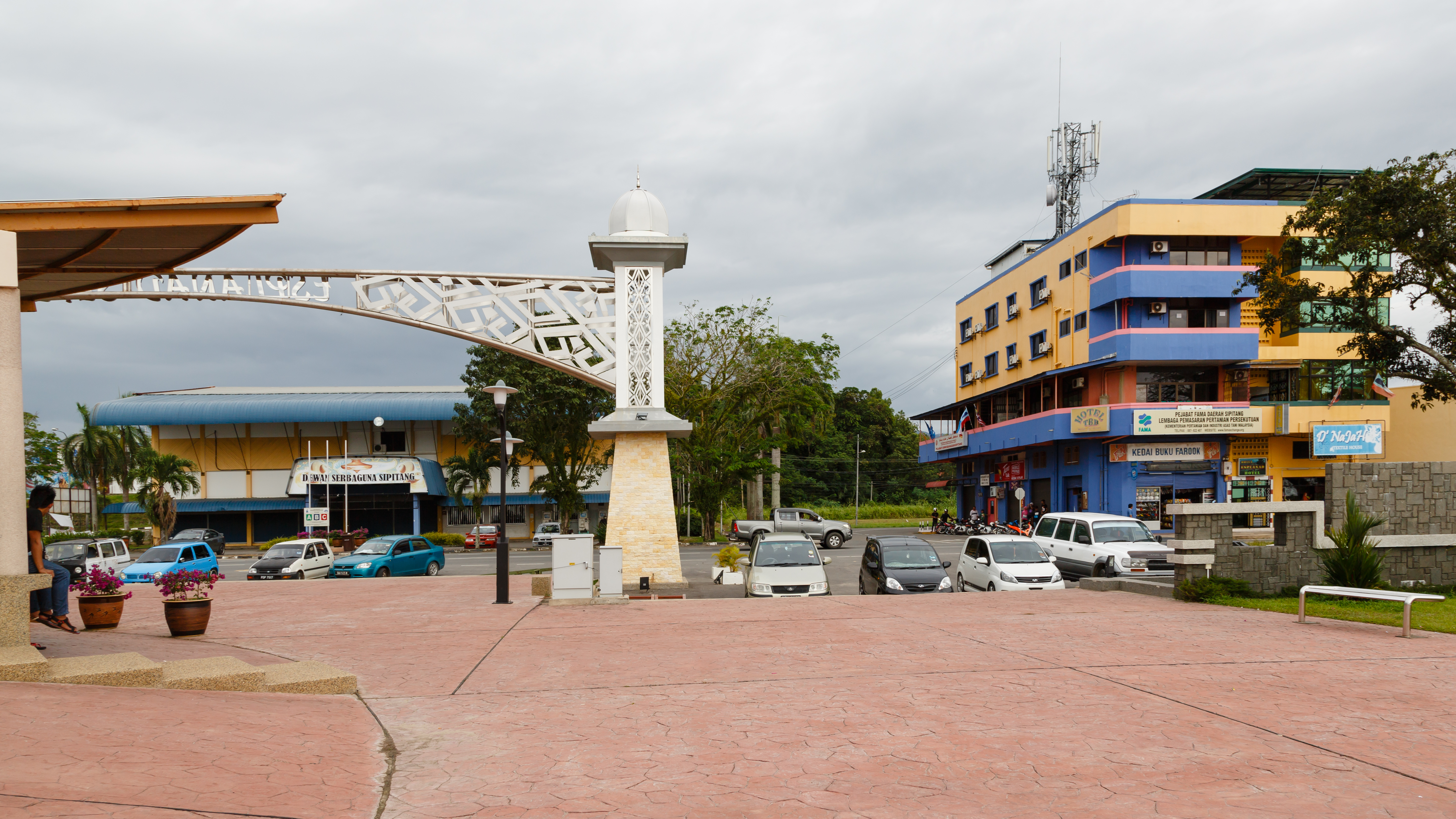 Sipitang, Sabah: Esplanad Sipitang and Multipurpose Hall